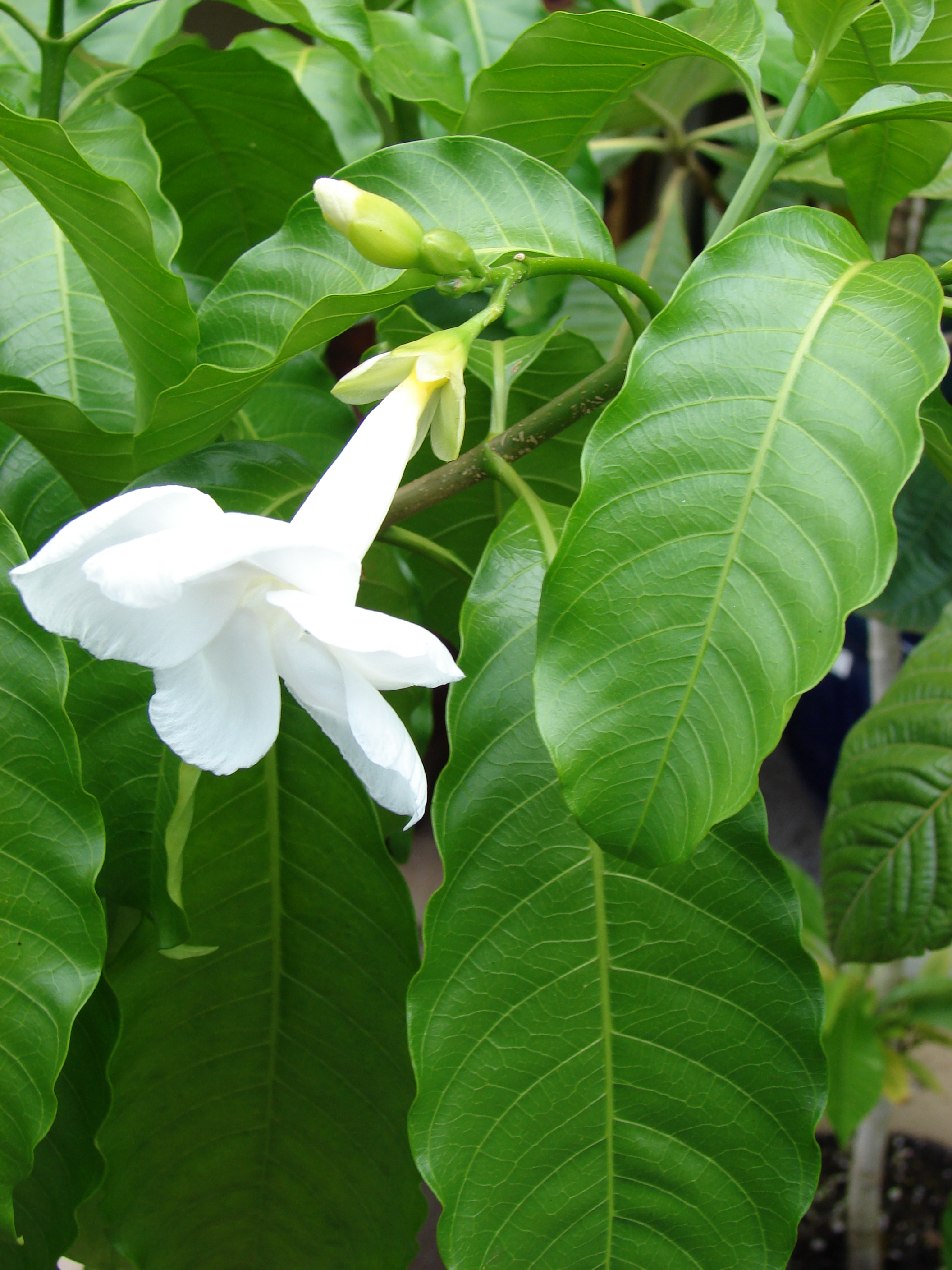 Stemmadenia litoralis (flower and leaves). Location: Maui, Kula Ace Hardware and Nursery